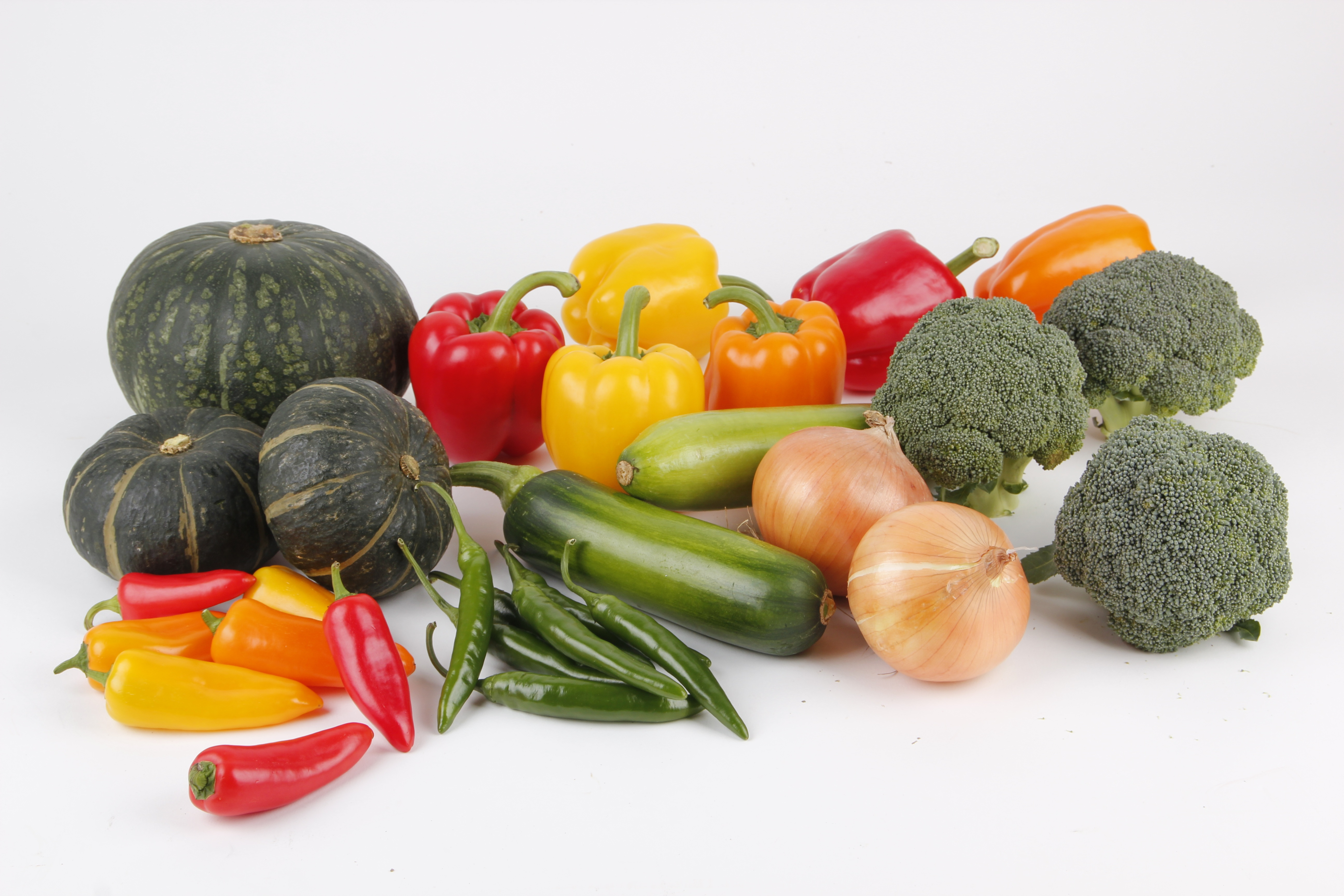 Vegetables: kabocha, bell peppers, aehobak, chili peppers, onions, broccoli